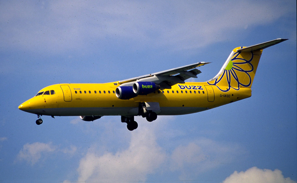 British Aerospace BAe 146-300 G-UKSC of buzz